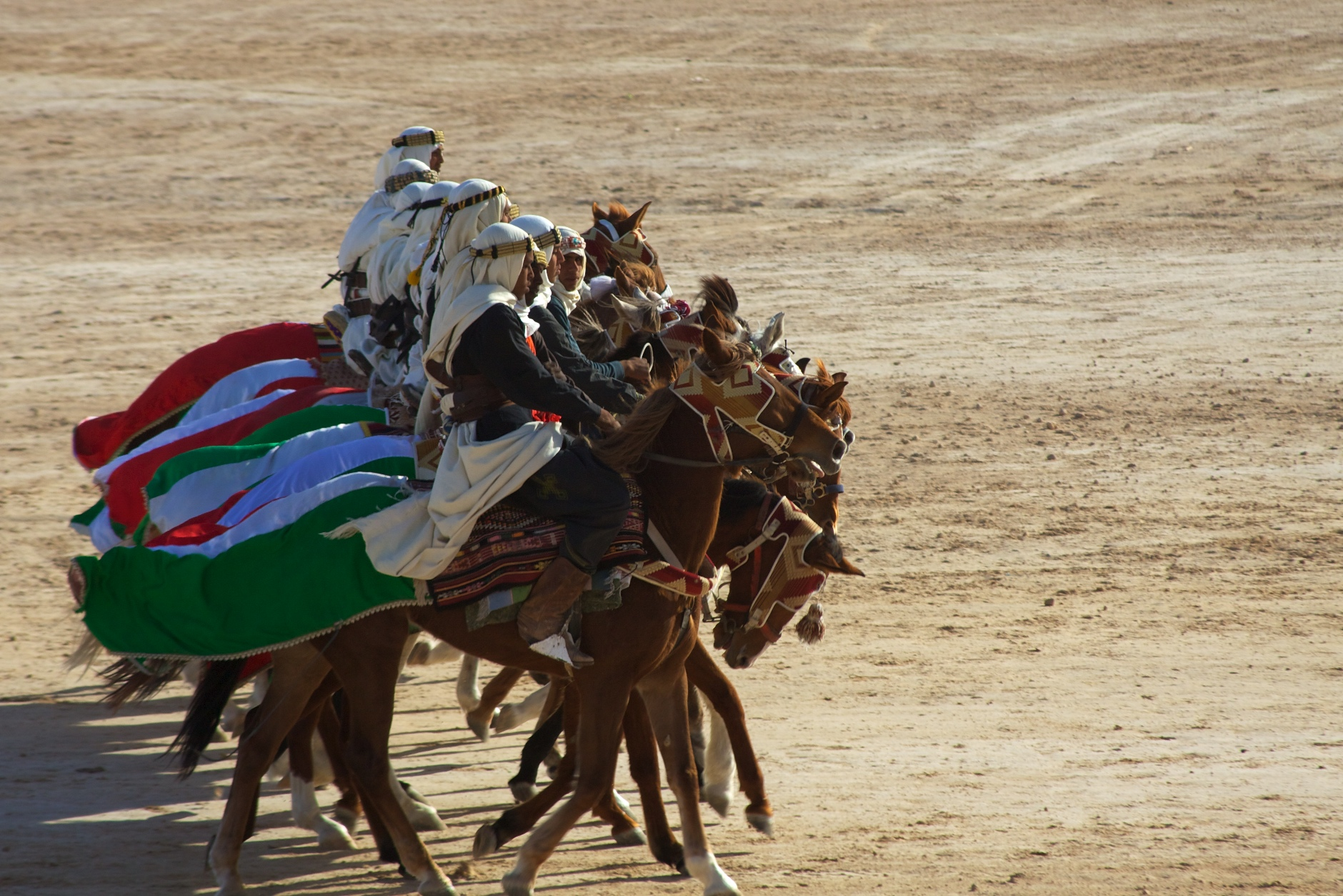 Tunisia 10-12 - 083 - Douz and the Festival of the Sahara